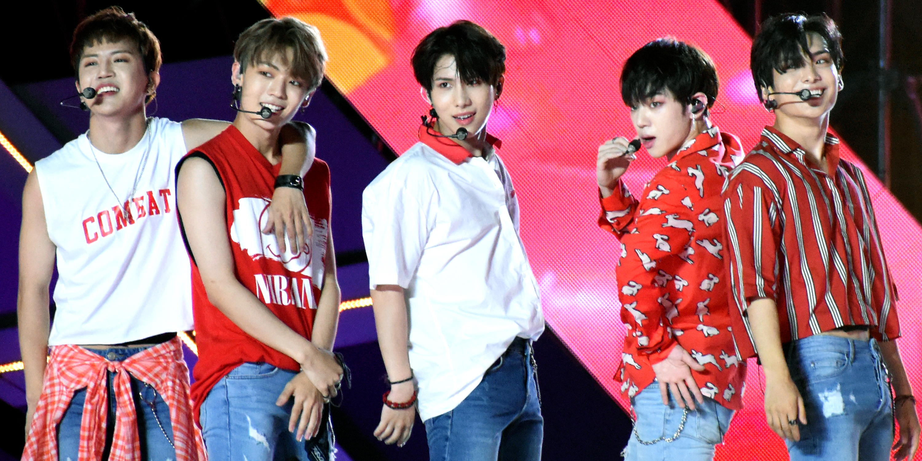 A.C.E at the 2018 Incheon Airport Sky Festival on September 2, 2018. Аҧсшәа: 2018년 9월 2일 스카이페스티벌에서의 에이스.